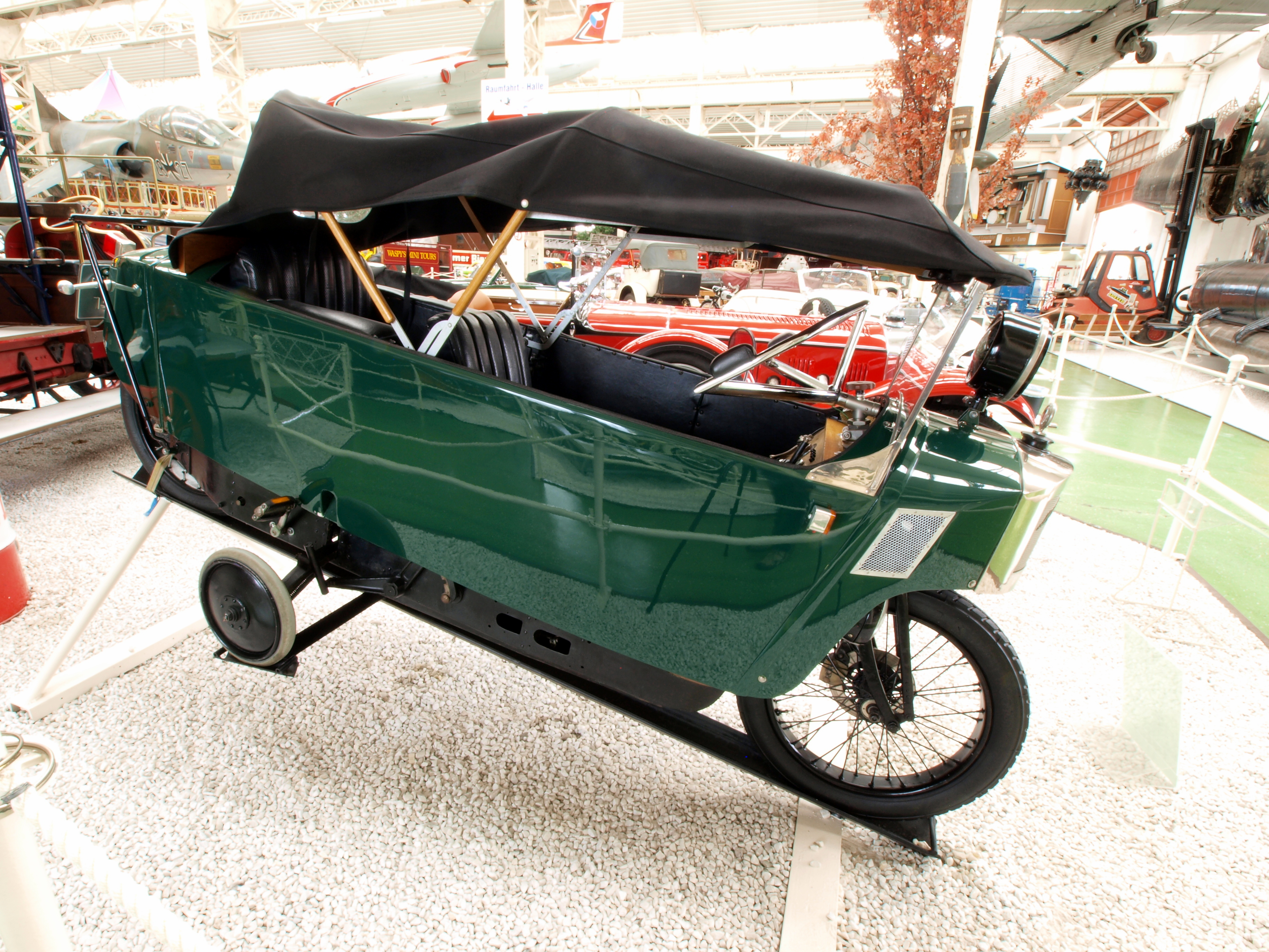 Photographed at the Technik Museum Speyer, Germany.